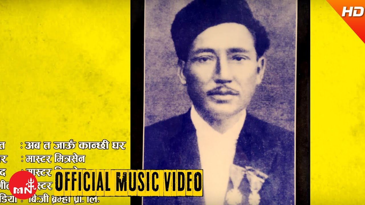 mastermitrasen thapa